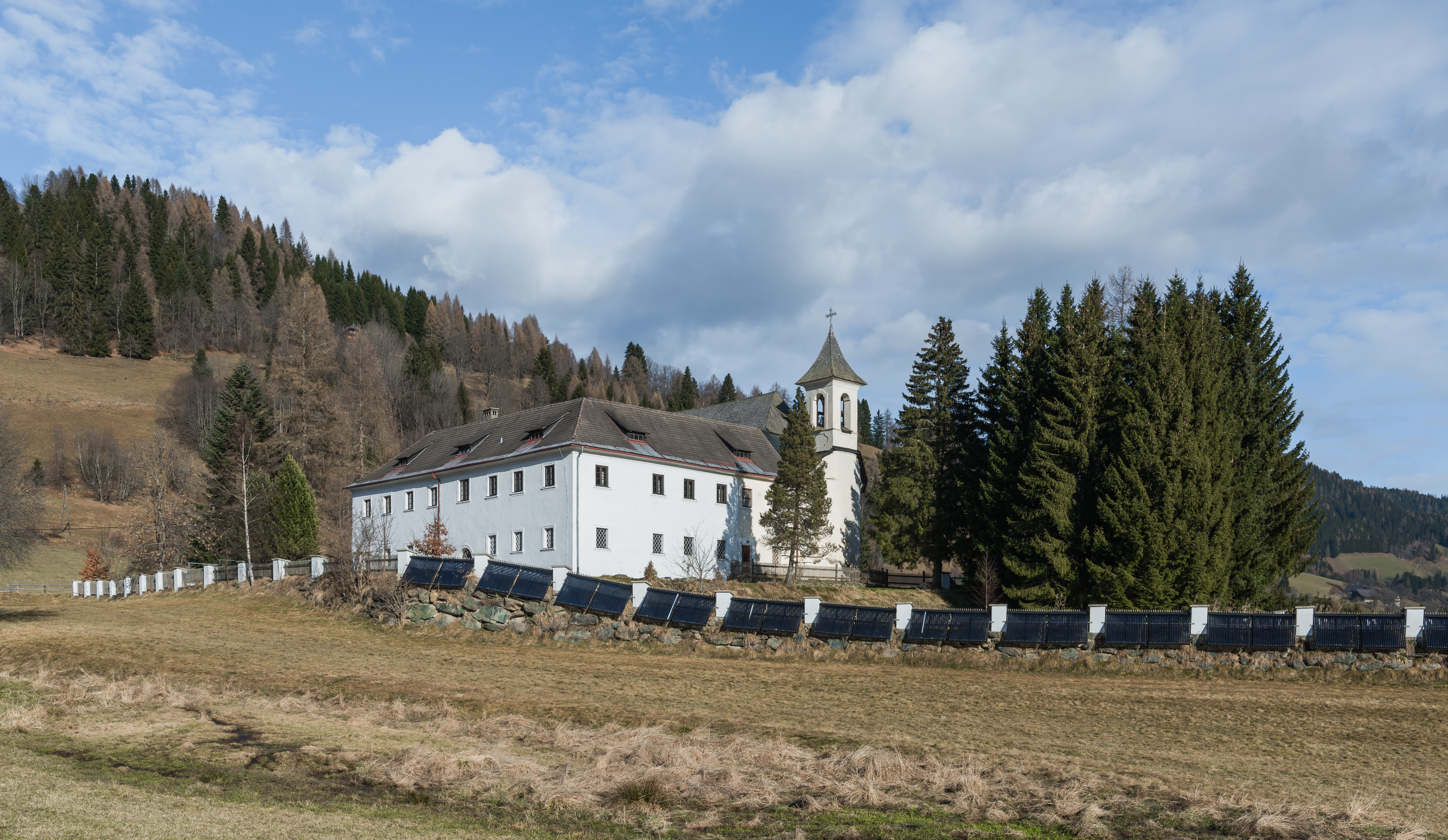 Former monastery, Carmelite hospice in Zedlitzdorf #34, municipality Gnesau, district Feldkirchen, Carinthia, Austria, EU